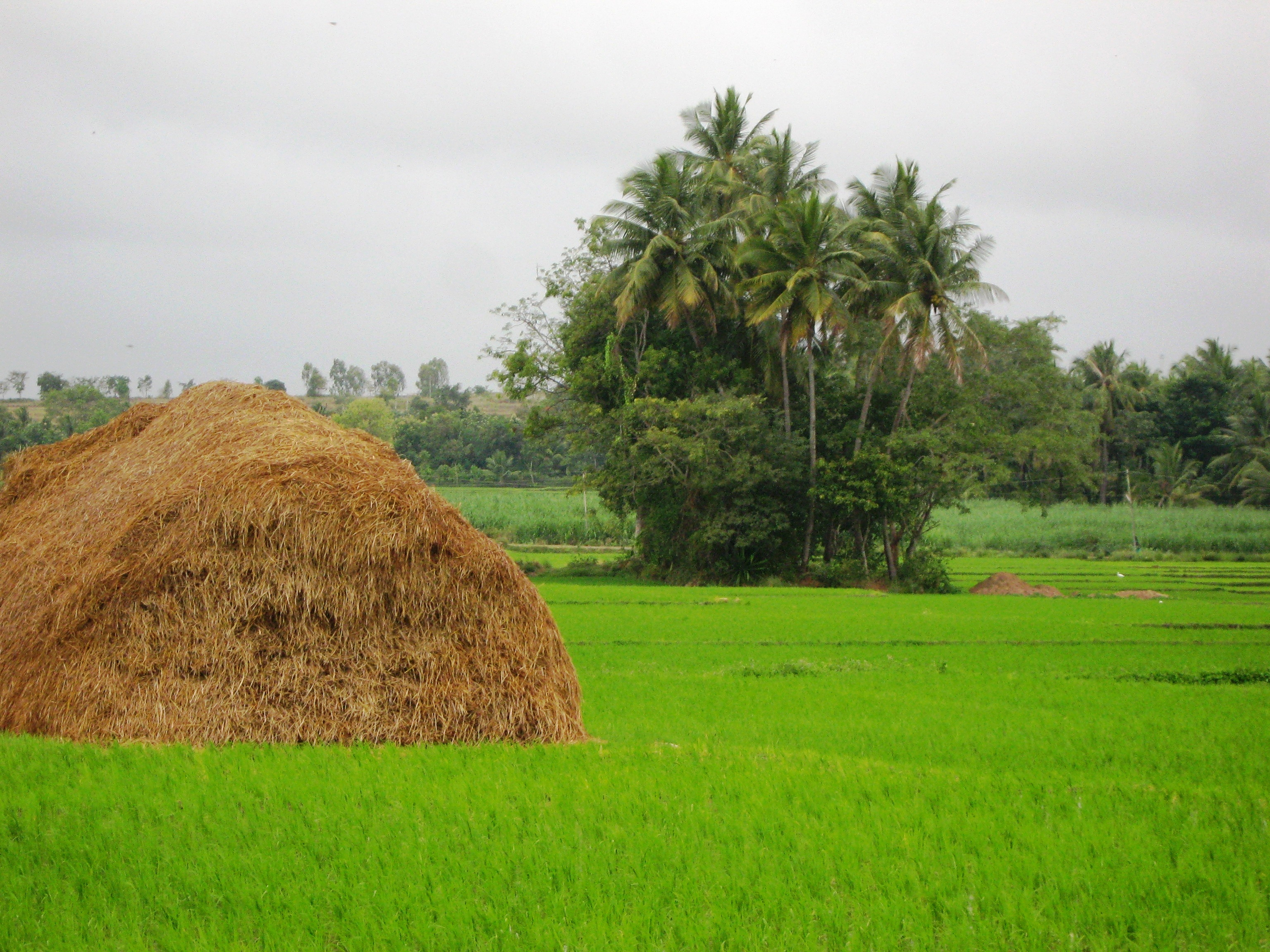 Mysore, India.